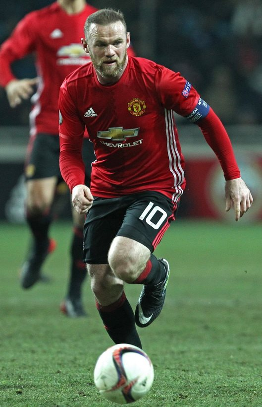 Wayne Rooney playing for Manchester United during Europa League clash against Zorya Lugansk on 8 December 2016